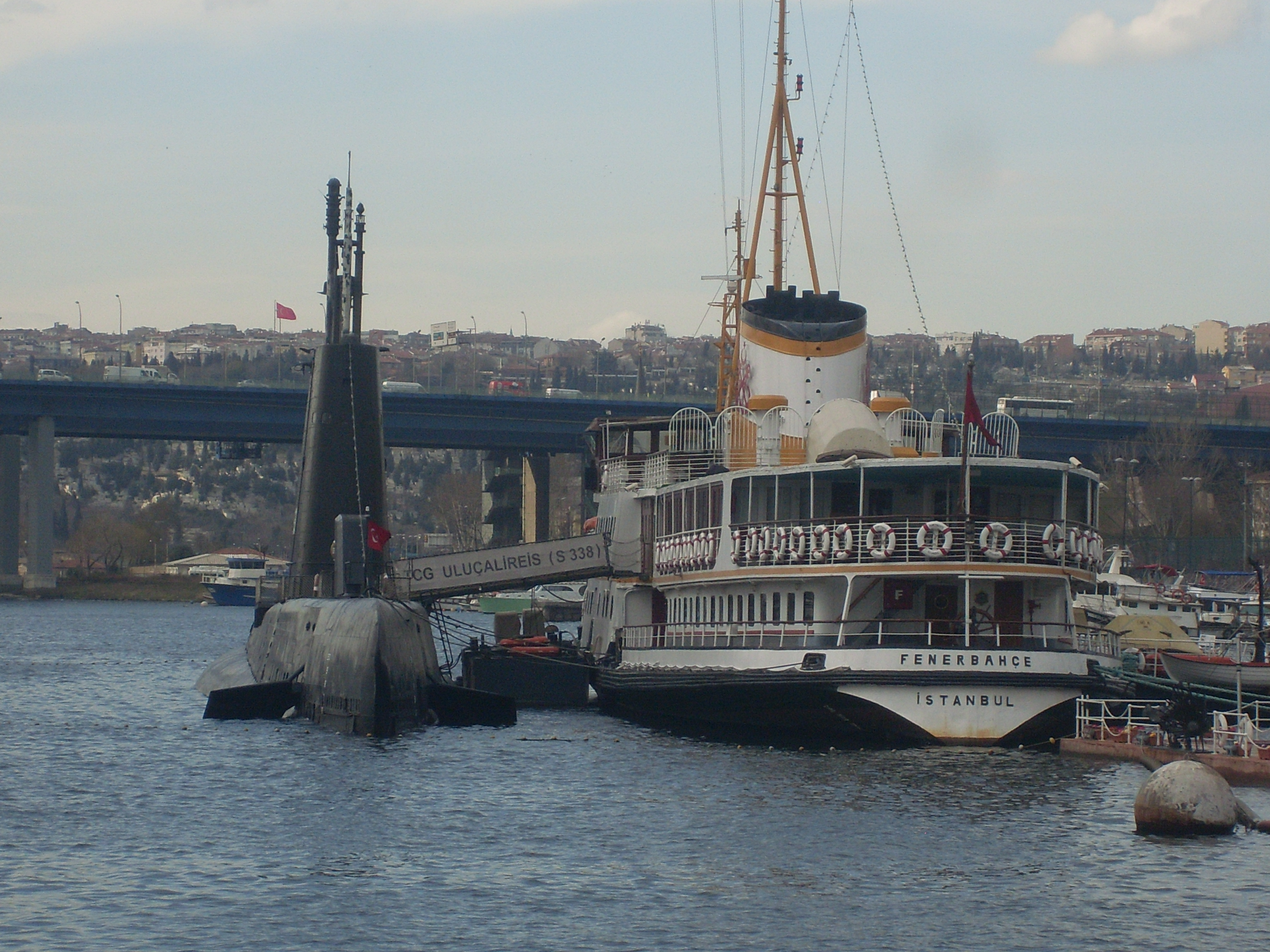 Fenerbahçe ship & TCG Uluçalireis (S-338) (Rahmi M. Koç Museum) - Mar 2013